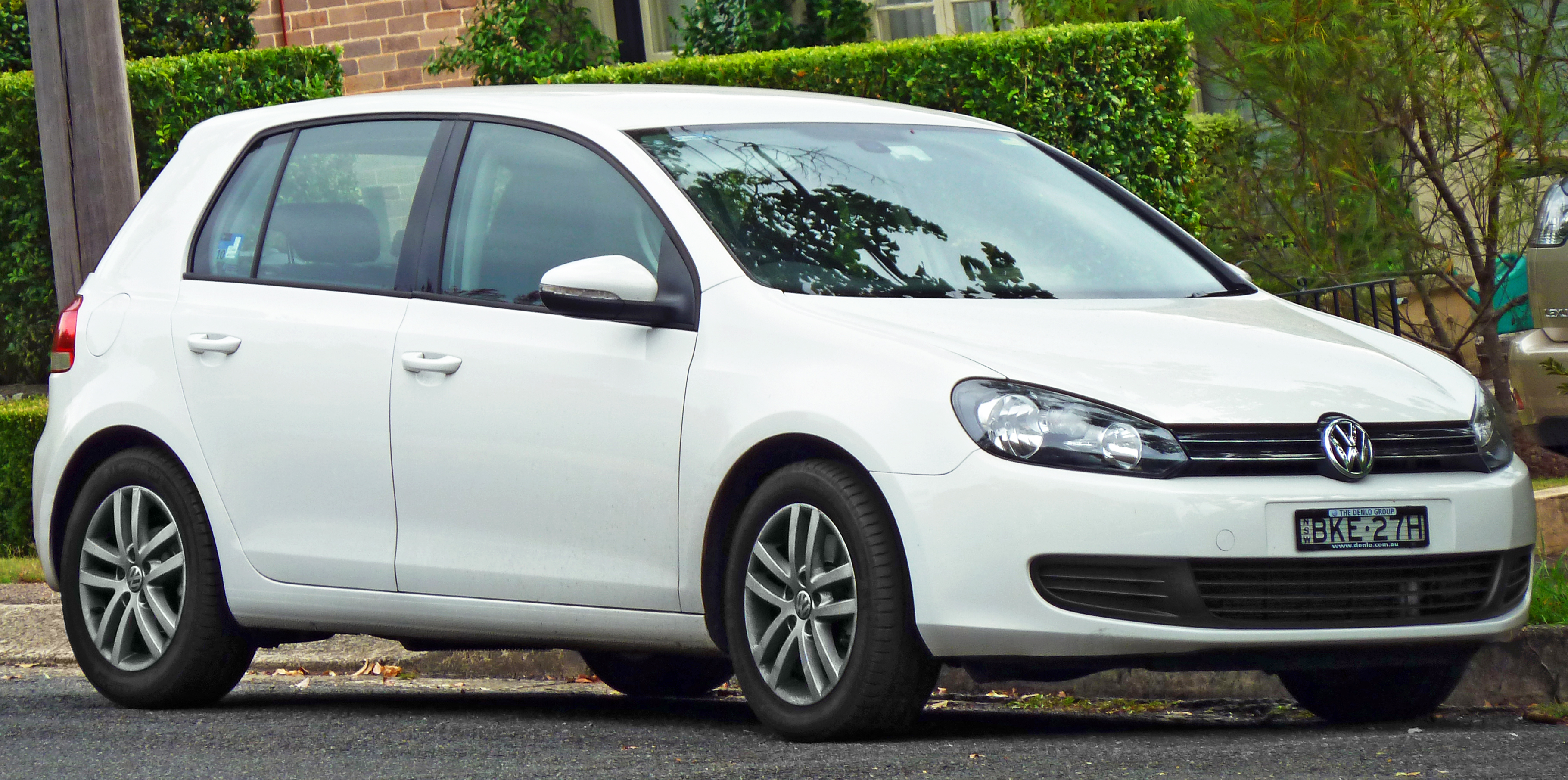 2009 Volkswagen Golf (5K MY09) 118TSI Comfortline 5-door hatchback. Photographed in Roseville, New South Wales, Australia.